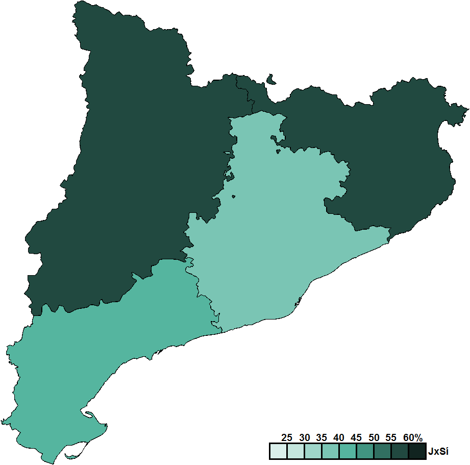 Provincial results for the 2015 Catalan regional election.